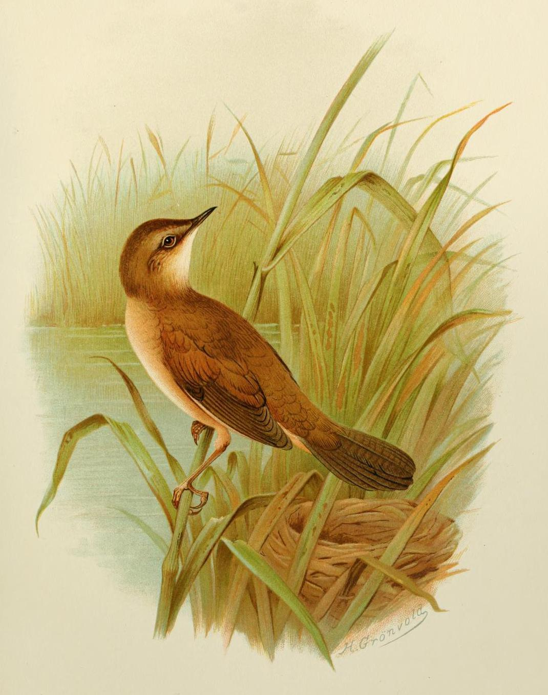 An illustration of a Savi's Warbler by Henrik Grönvold